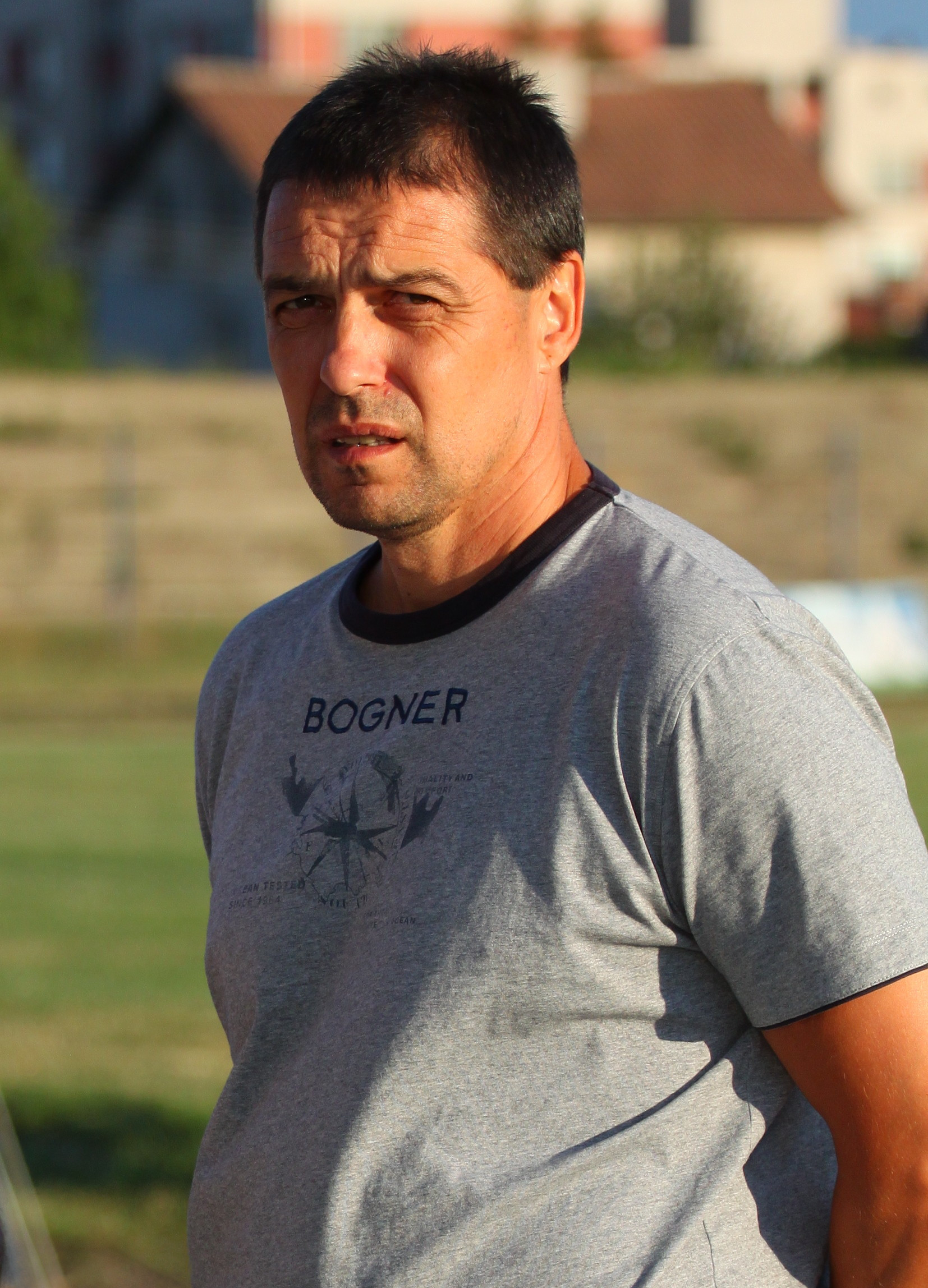 Petar Houbchev (Bulgarian: Петър Хубчев) (born 26 February 1964) is a Bulgarian former football player, and Director of Sport at Beroe Stara Zagora.